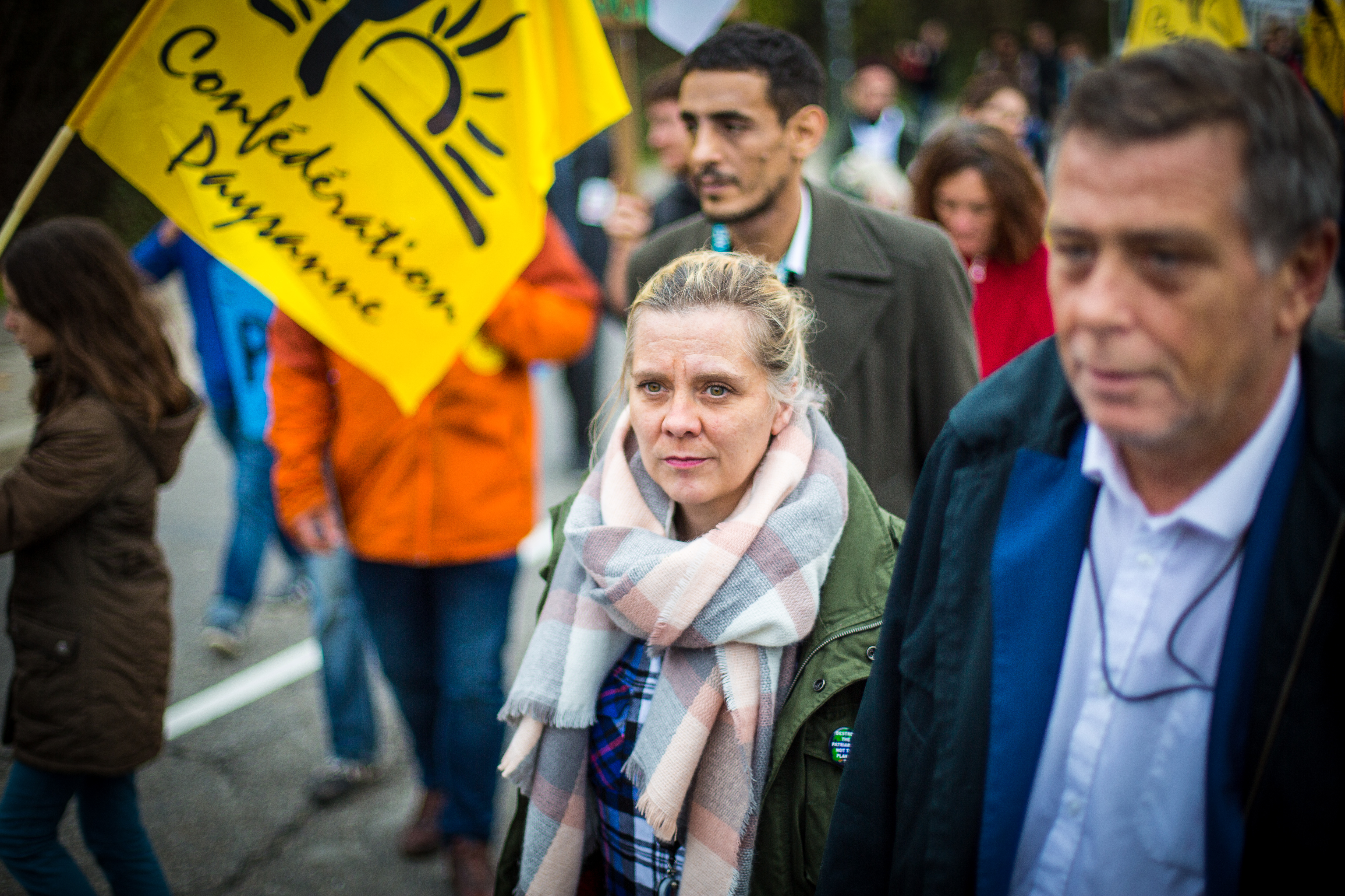 in the context of the reform of the CAP, an important citizen mobilization took place in Strasbourg to oppose the current project and demand a fairer, healthier, more sustainable Common agricultural policy !